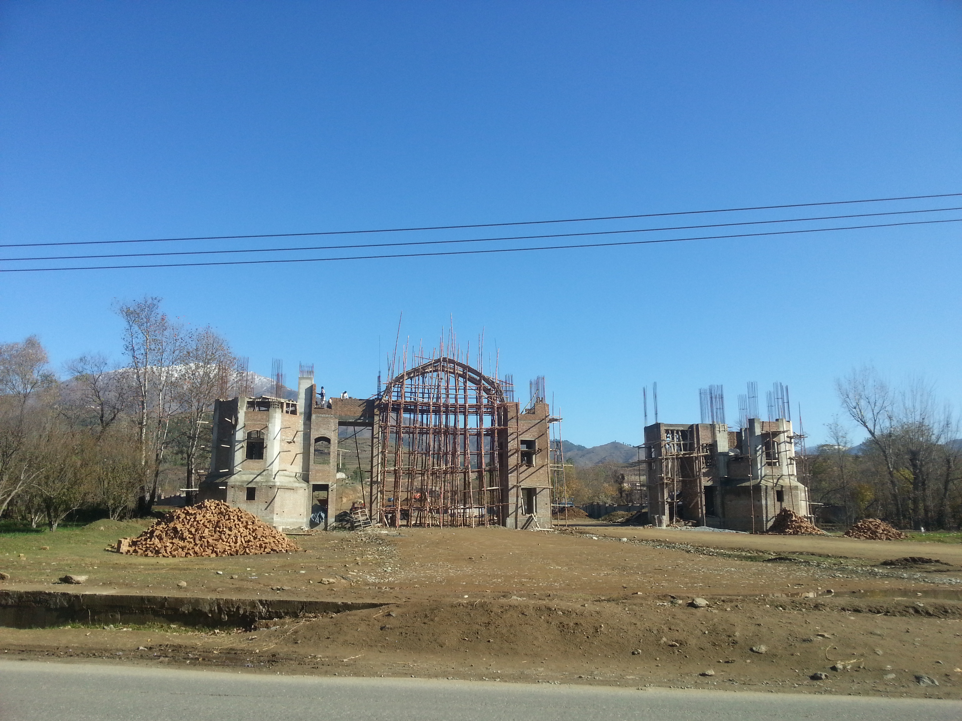 Swat university